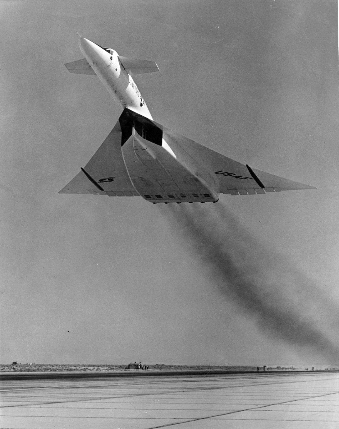 North American XB-70A Valkyrie just after takeoff with gear up and flaps extended.